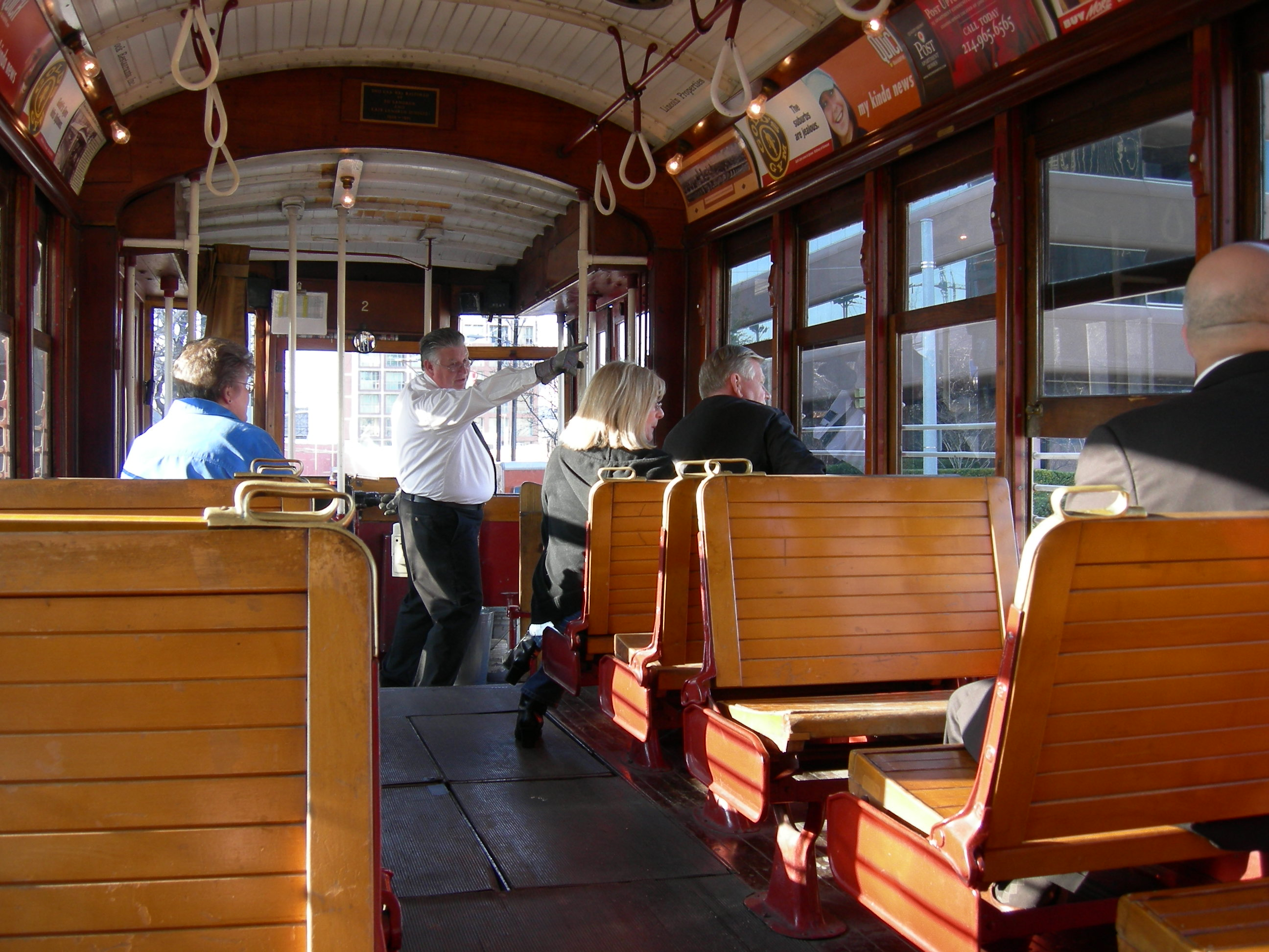 McKinney Avenue Transit Authority trolley, Dallas, Texas Car 186 ("The Green Dragon")